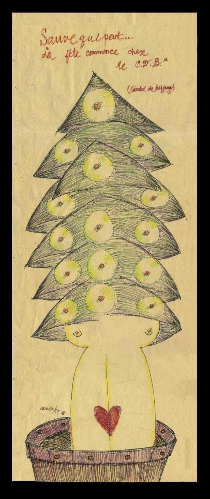 Detail rom a poster for a party design by Fabio Barrera and drawing by Fernando Granda. Beijing, China. 1989